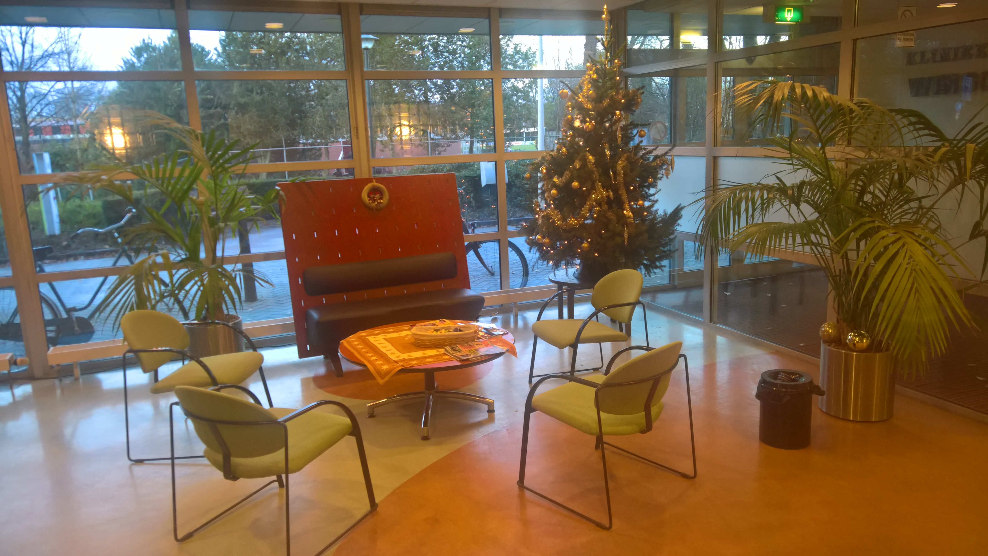 A local psychiatric ward for the mentally unstable in the Groninger city of Winschoten.